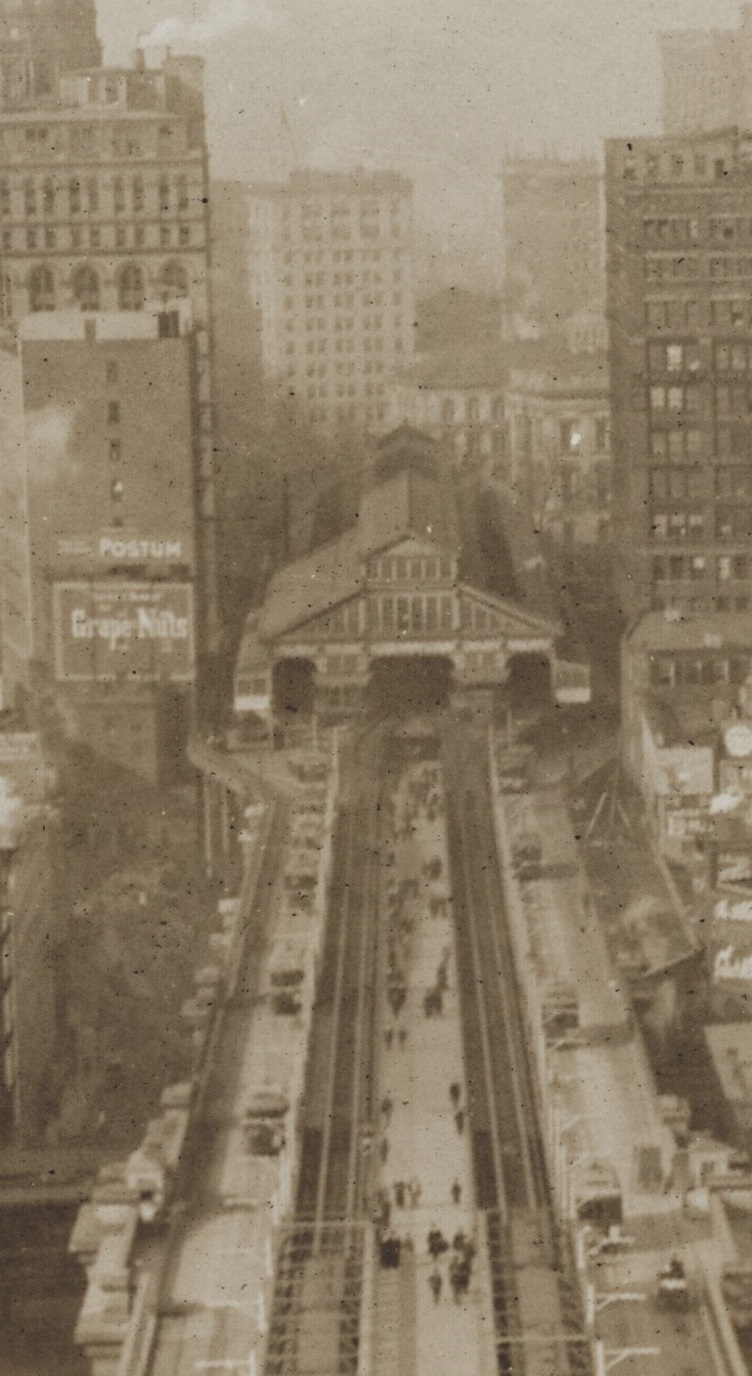 Title: New York from tower of Brooklyn Bridge Abstract/medium: 1 photographic print.